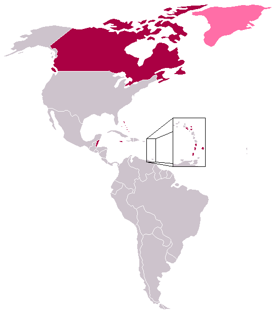 Derivative of Image:Commonwealth Realms map2.png. American equivalent of Image:Location European monarchies.svg.